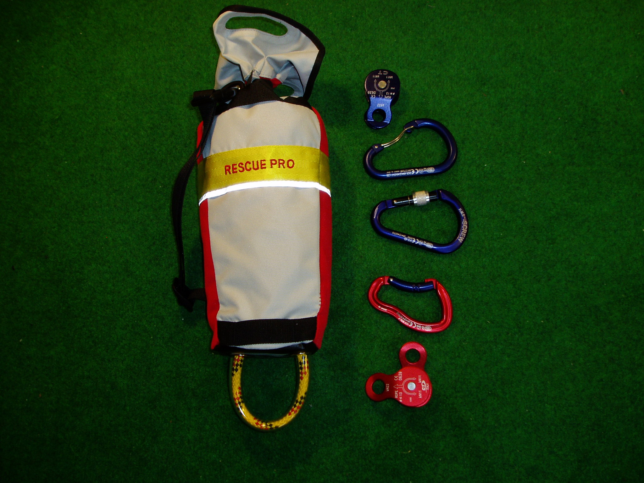 Throw bag